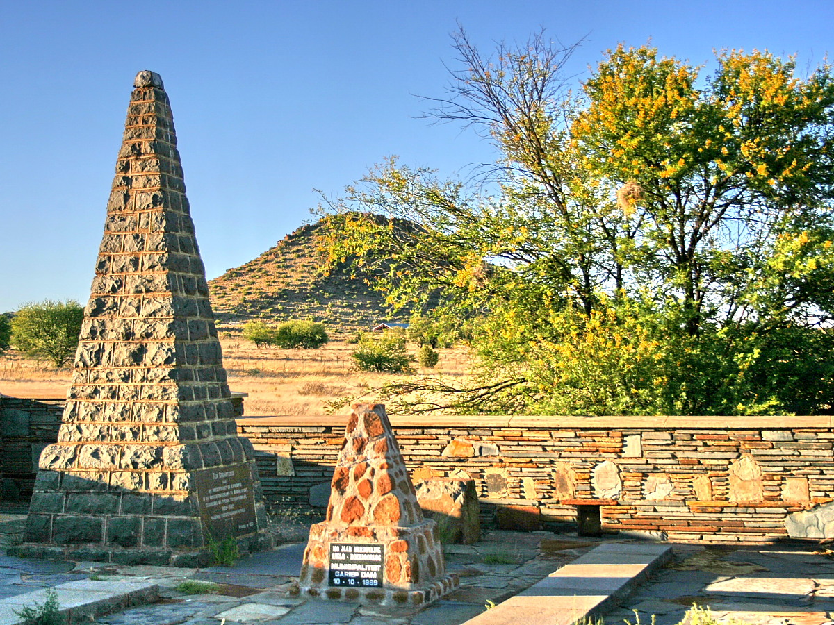 Norvalspont Concentration Camp Memorial